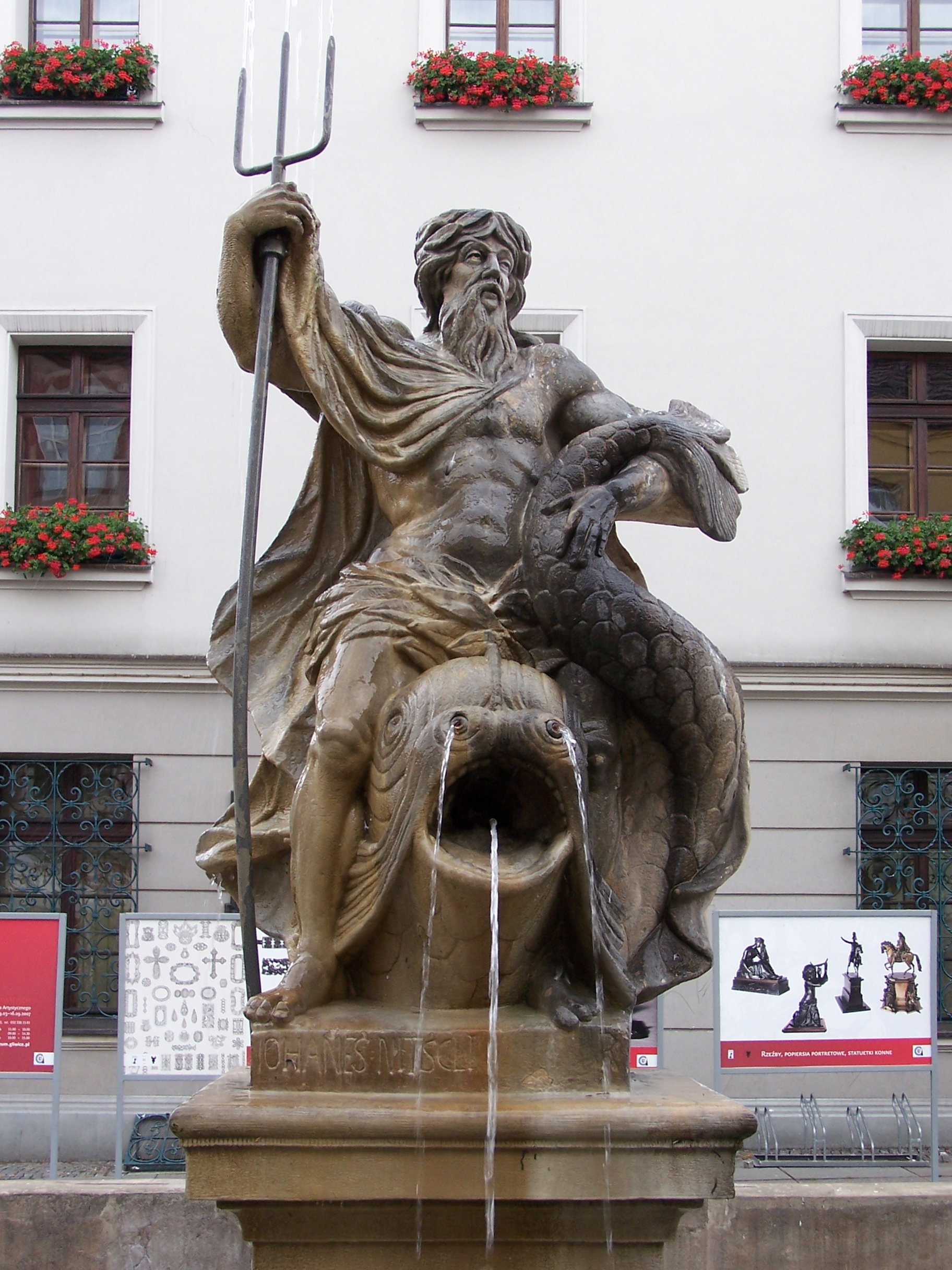 Fountain of Neptune in Gliwice (Poland).